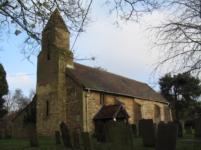 All Saints' parish church, Stanton-on-the-Wolds, Nottinghamshire, seen from the southwest